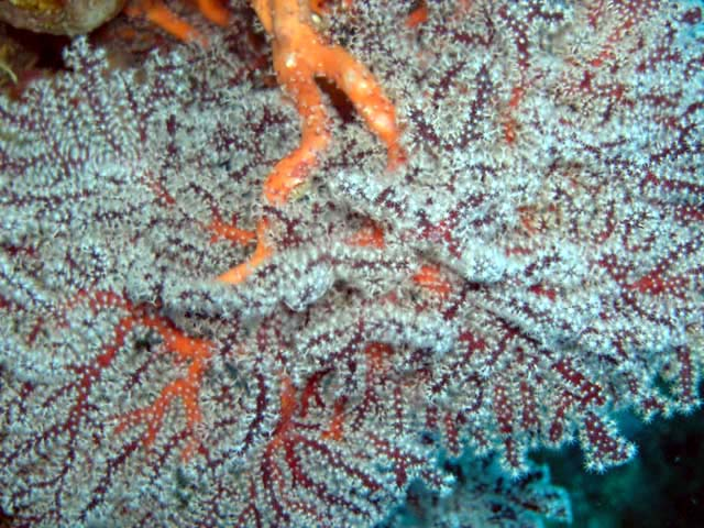 Blue spiny gorgonian (Anthogorgia sp.), Pulau Aur, West Malaysia